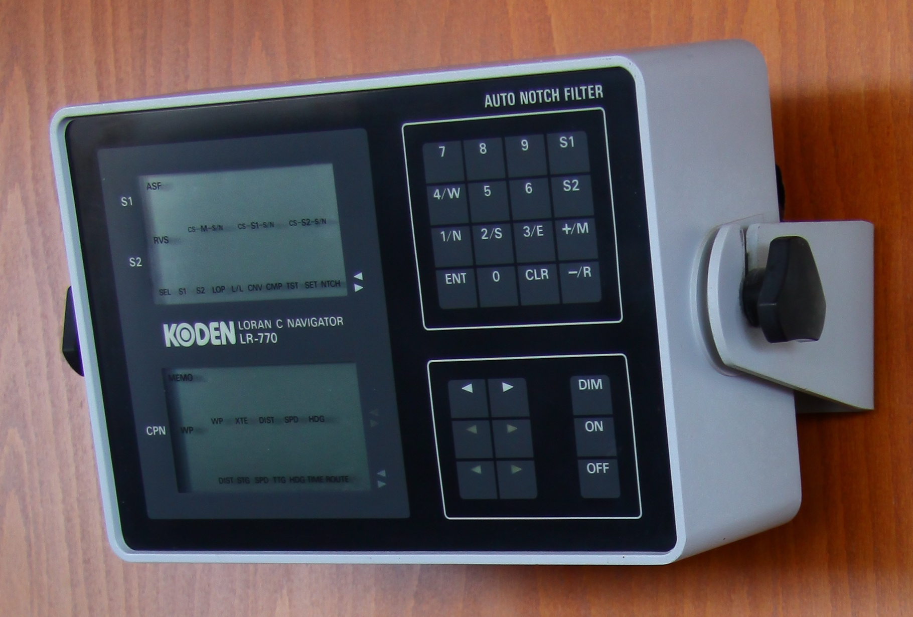 Koden Loran C Navigator LR-770